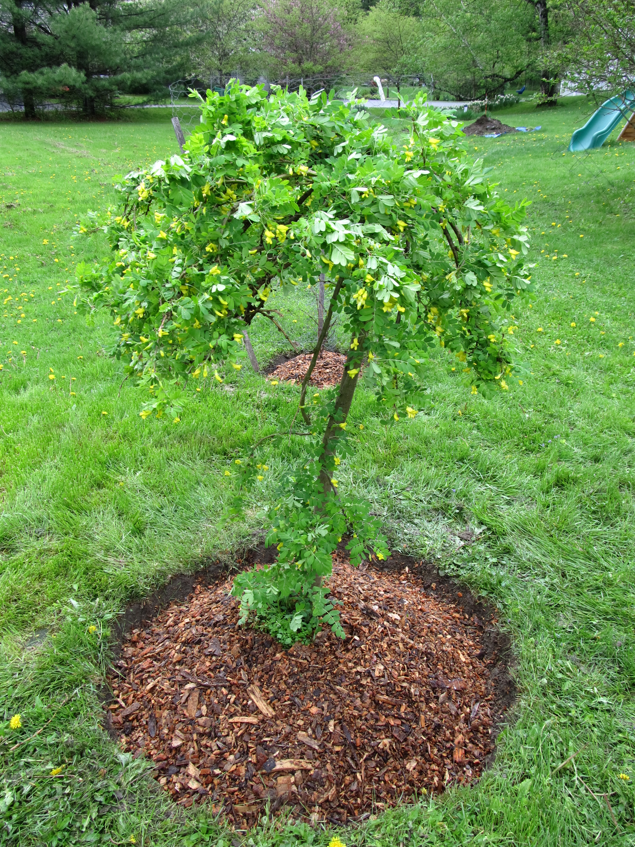 Photograph of a weeping Siberian pea tree, Caragana arborescens 'Pendula.' Trunk and rootstock are of unknown cultivar. Top growth is 'Pendula' cultivar. Visible growing up from base are root suckers of the rootstock. Location: Norwich, Vermont, USA.